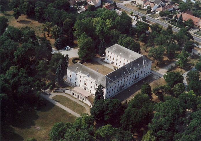 Aerial photo of Batthyány Mansion, Bicske, Hungary This is a photo of a monument in Hungary. Identifier: 3570